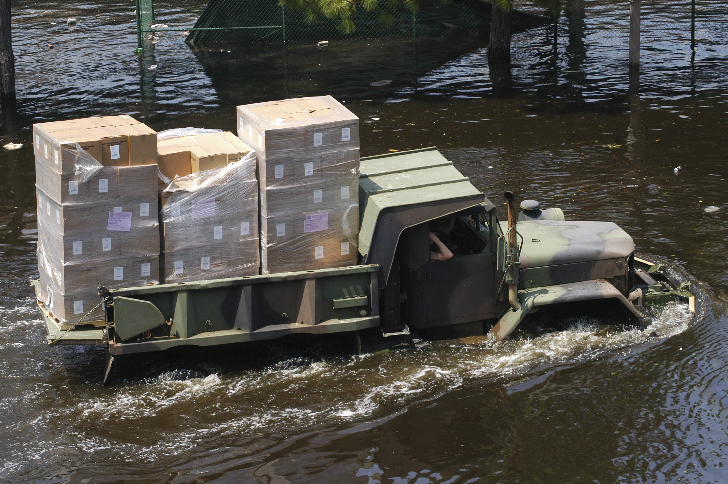 A National Guard multi-purpose utility truck fords the floodwaters left by Hurricane Katrina to bring supplies to the Super Dome in downtown New Orleans, La., on Aug 31, 2005. Tens of thousands of displaced citizens sought shelter at the dome but are now being evacuated as floodwaters continue to rise throughout the area. Department of Defense units are mobilizing as part of Joint Task Force Katrina to support the Federal Emergency Management Agency's disaster-relief efforts in the Gulf Coast areas devastated by Hurricane Katrina.